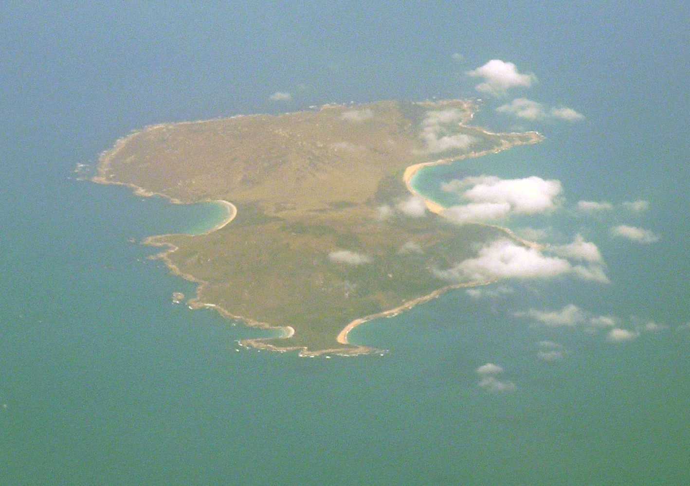 Inner Sister Island near Flinders Island Tasmania Australia from east 10:48 am